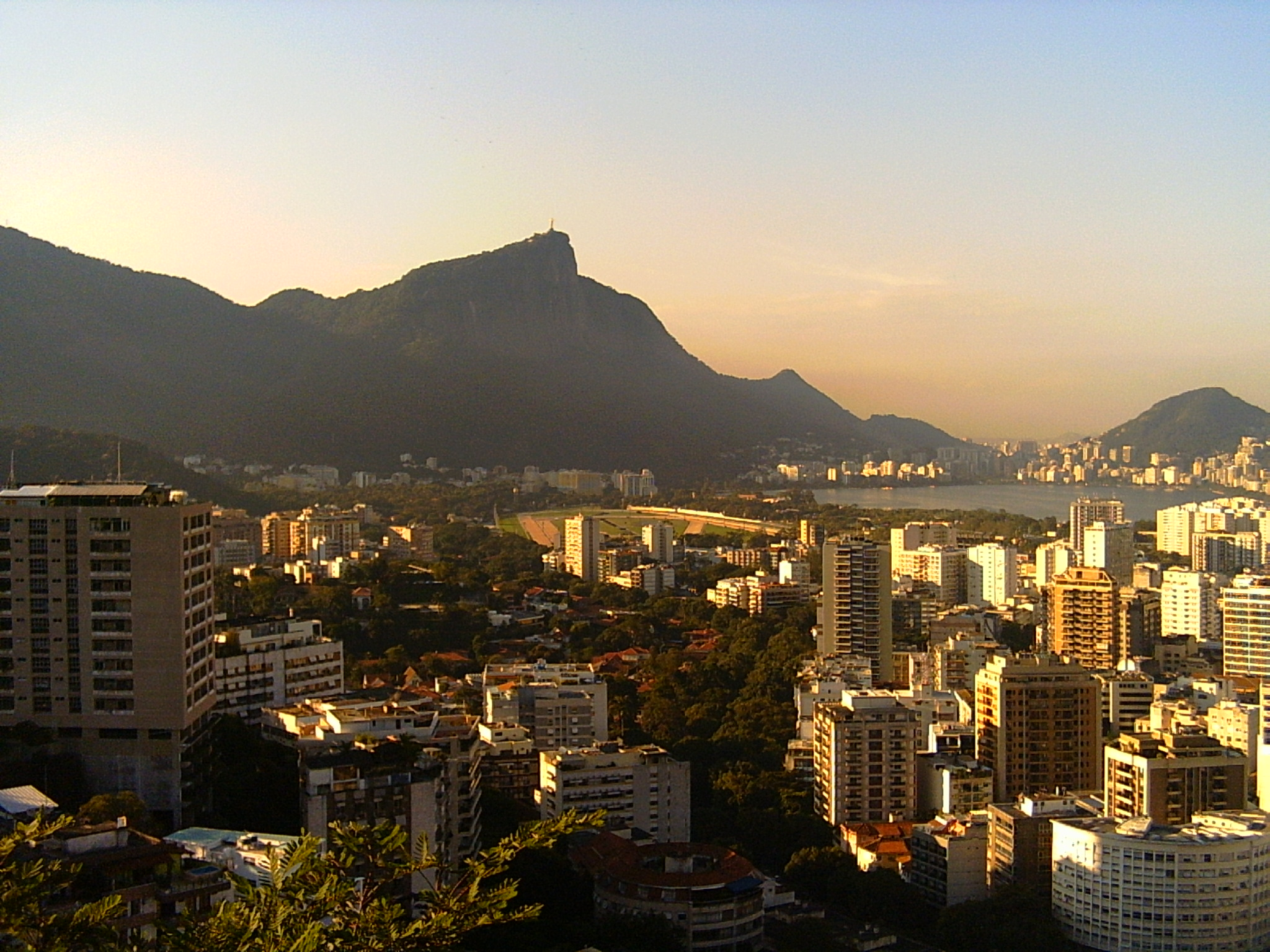 Corcovado and Lagoa from Dois Irmãos Mountain Park, at the sunset. Date:December, 2002